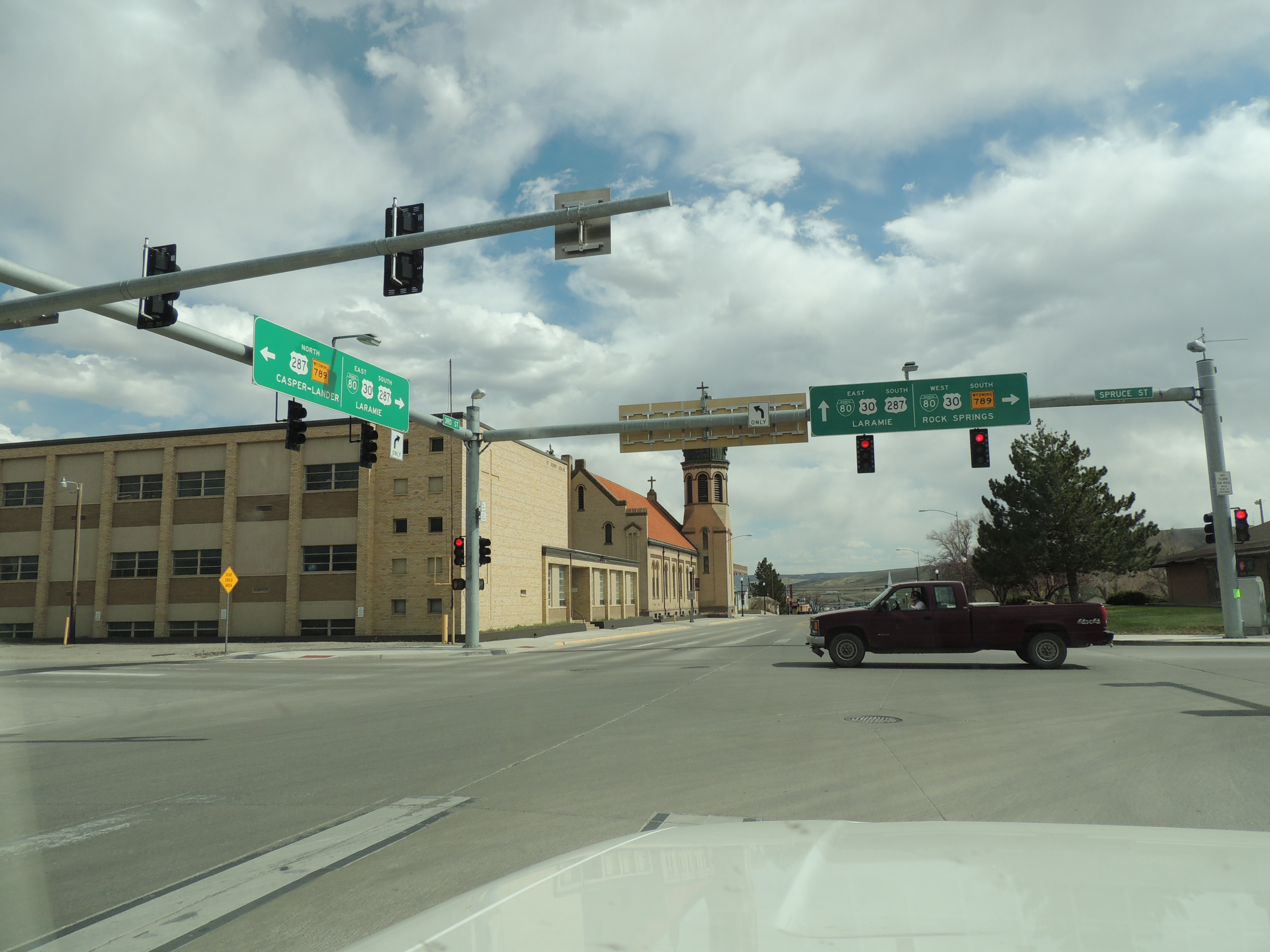 Street scene Rawlins Wyoming